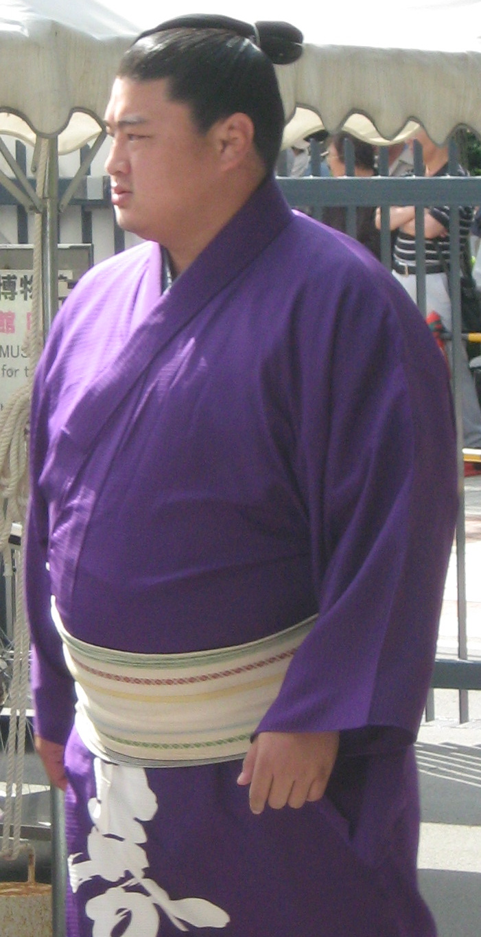 Picture taken at Sep 2008 tournament